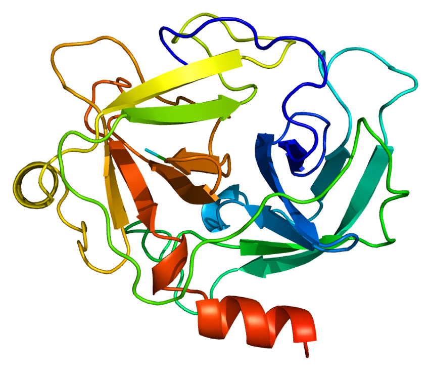 Structure of the CTSG protein. Based on PyMOL rendering of PDB 1au8.